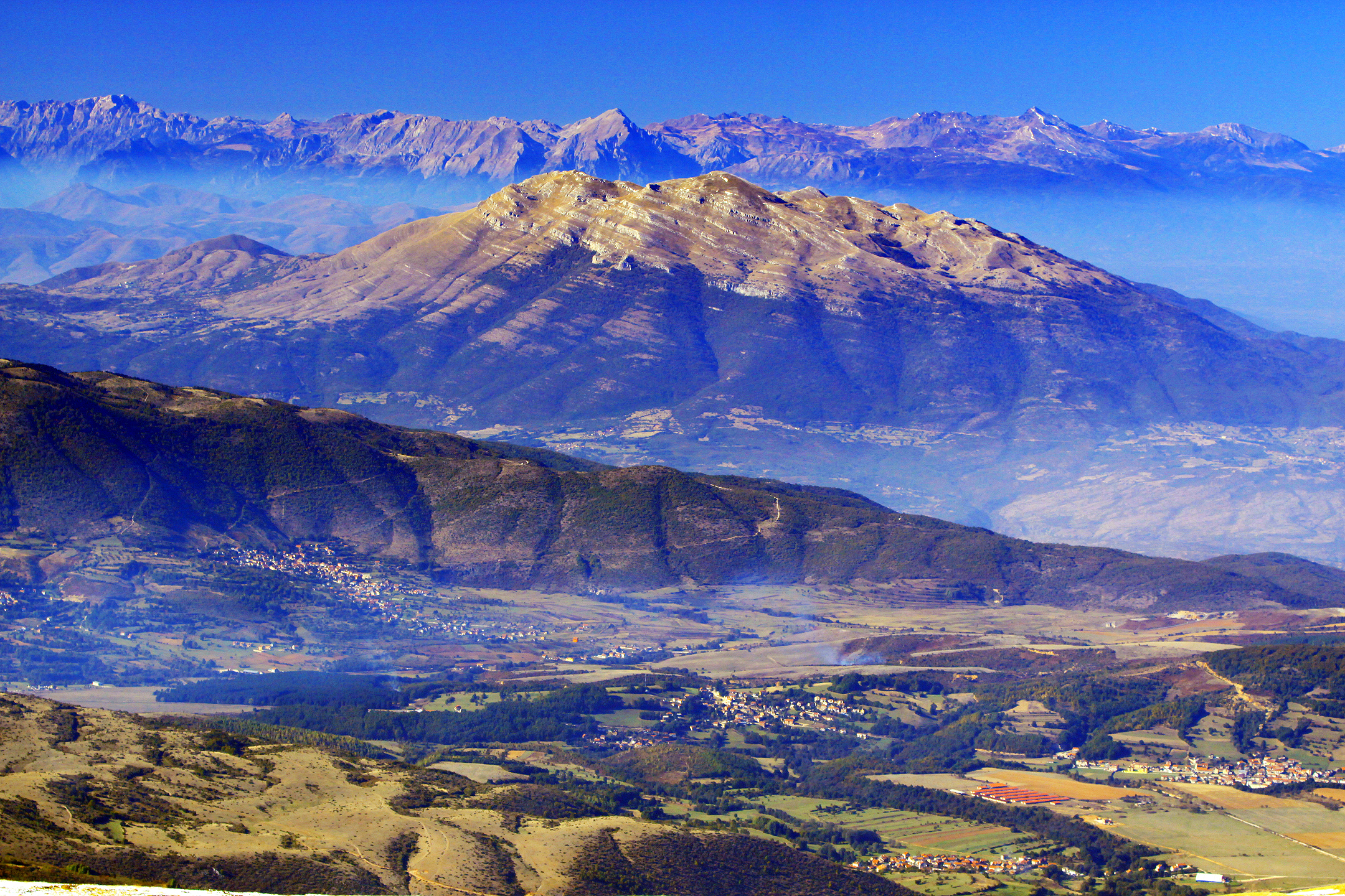 The view of Opoja region on the bottom, lower section of Koritnik, and Pashtrik mountain in the center. Far away are the northern mountains of Albania and in the far right, Deçani mountains